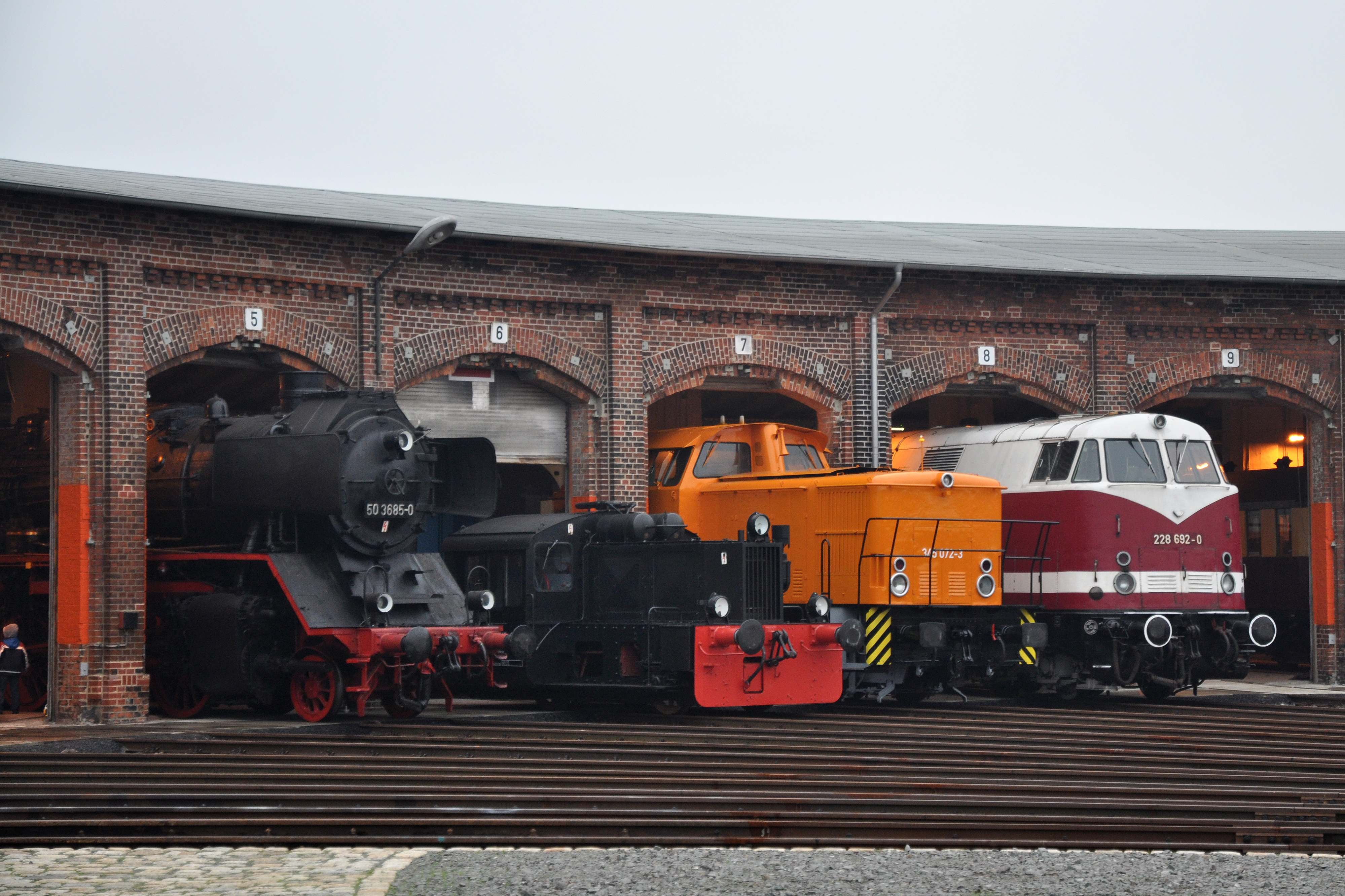 Steam locomotives and diesel locomotives at the Bahnbetriebswerk Wittenberge.